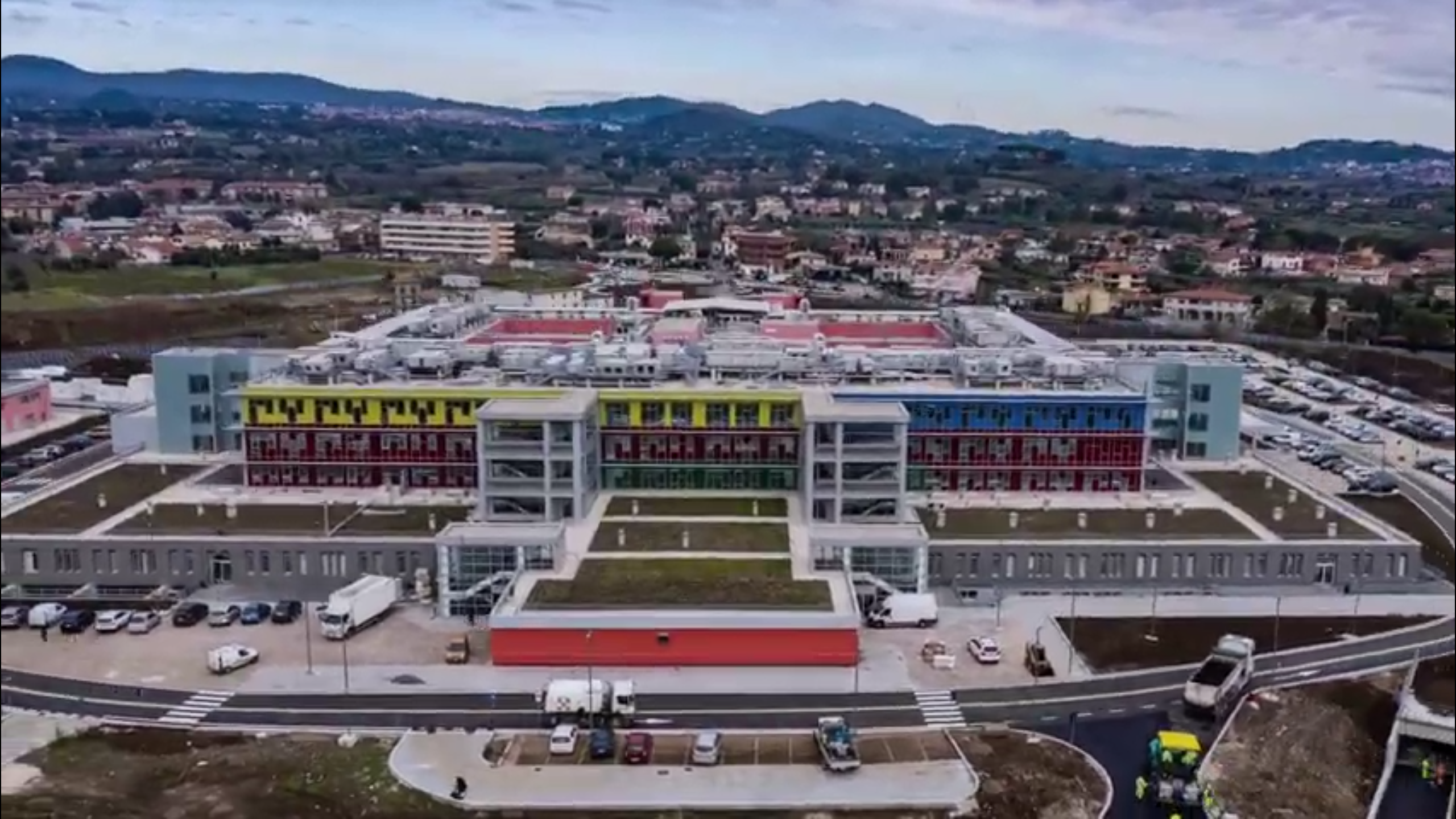 Castelli hospital 3